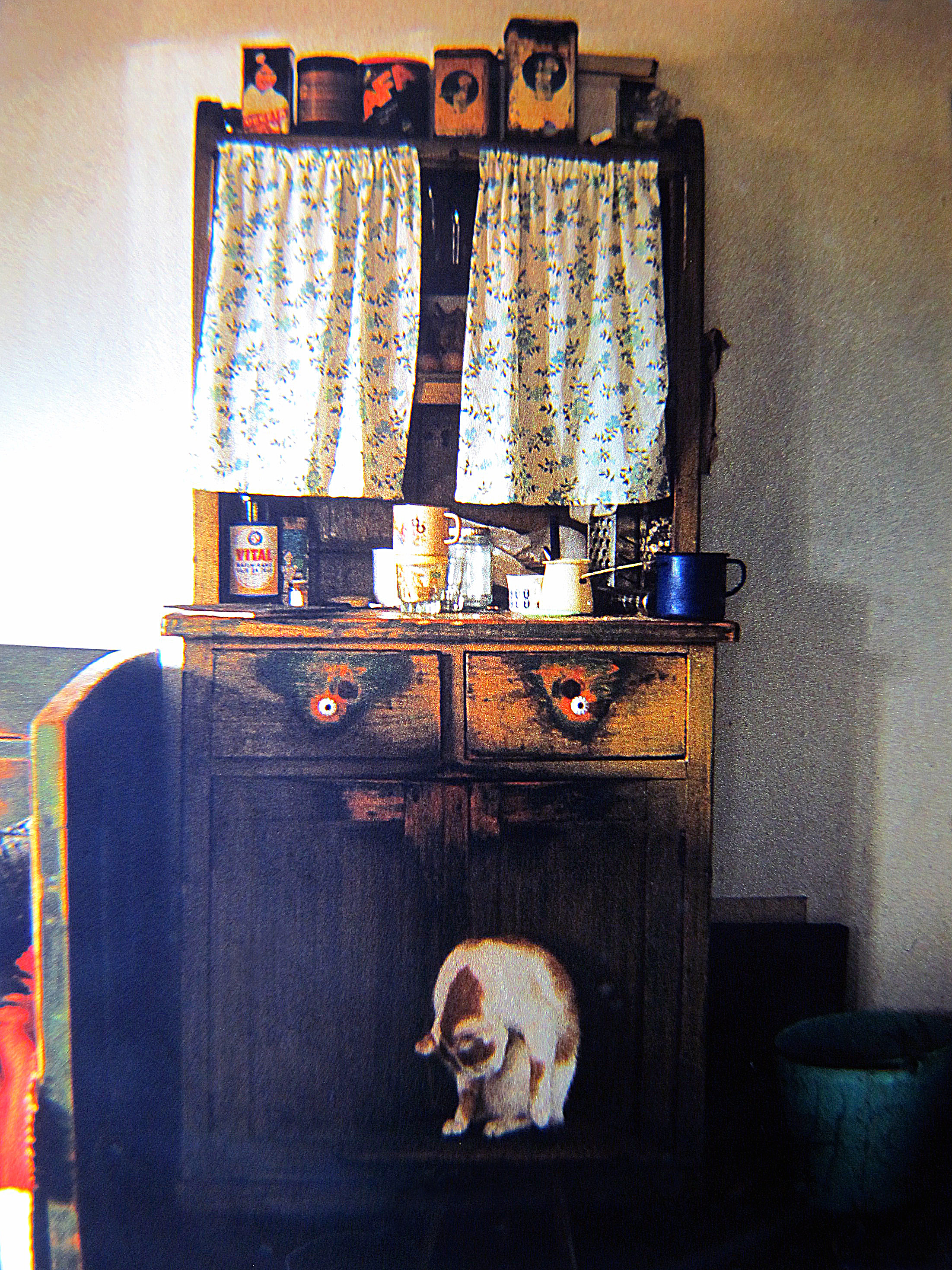 Hoosier cabinet, West Serbia